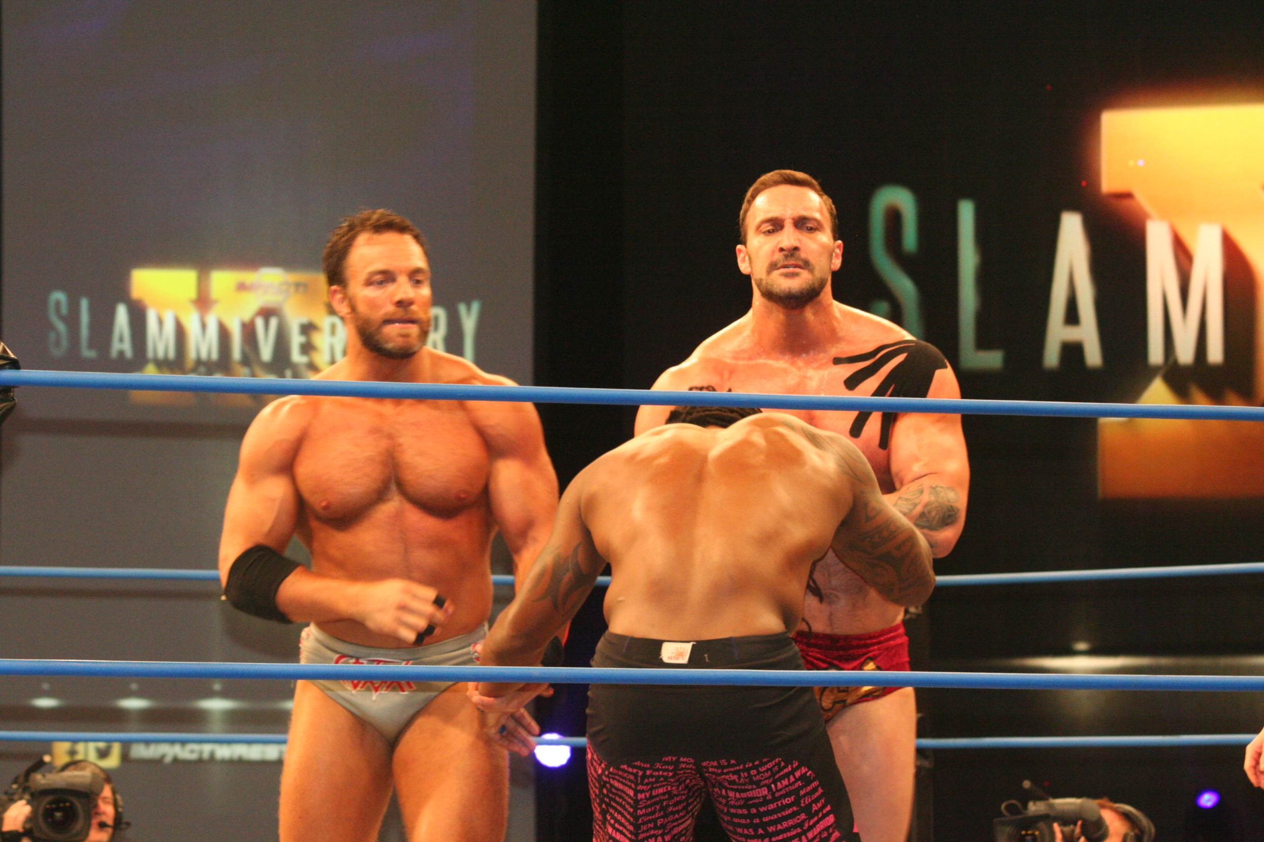 The team of Eli Drake and Chris Adonis attacks DeAngelo Williams at Slammiversary XV event.